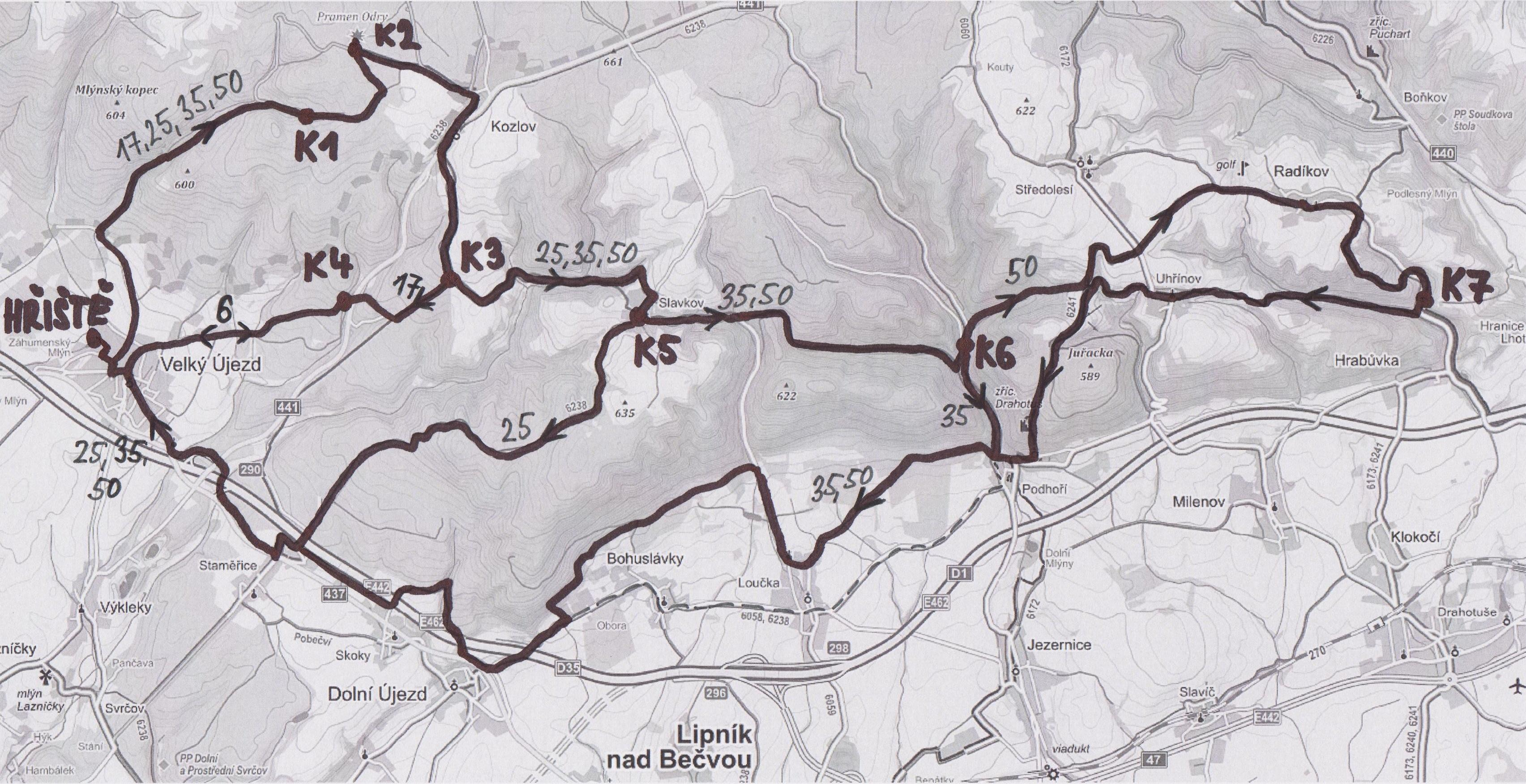 Memoriál Jaroslava Švarce 2016 – map